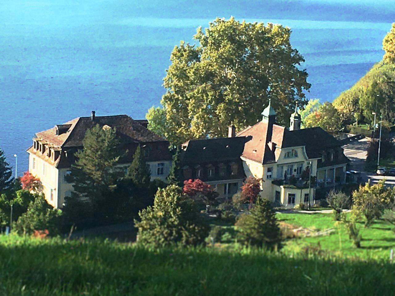 The building of Salesianum, Zug photograpged of year 2018